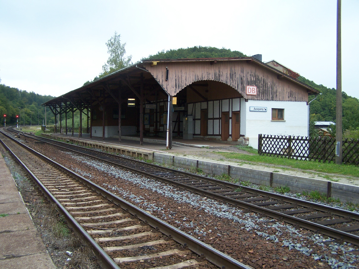 The railwaystation Förtha.